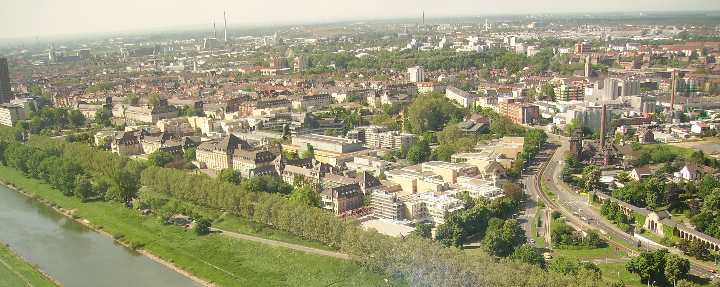 Area of the Universitätsklinikum Mannheim, seen from the Fernmeldeturm Mannheim